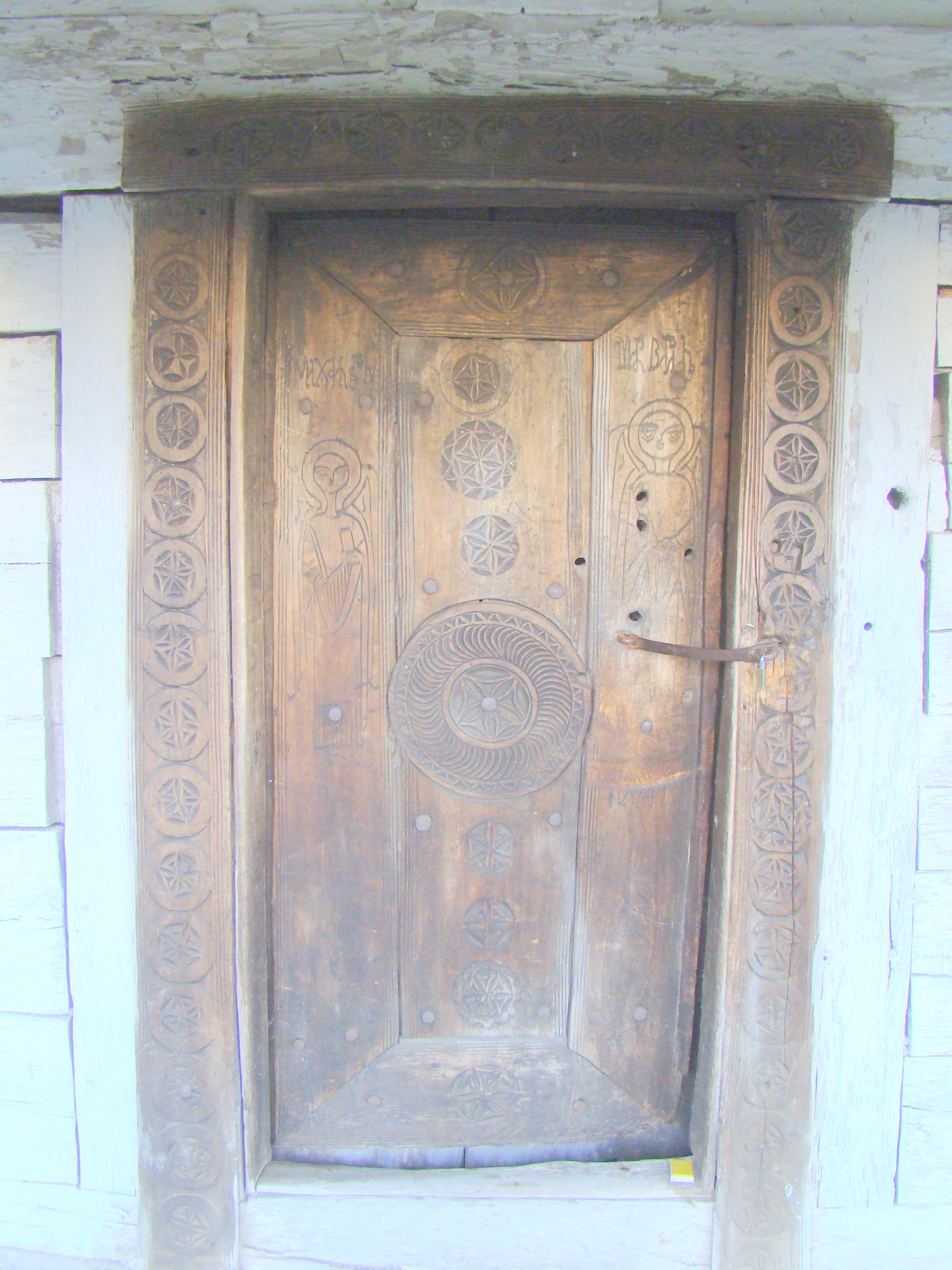 Wooden church in Crasna-Ungureni, Gorj county, Romania